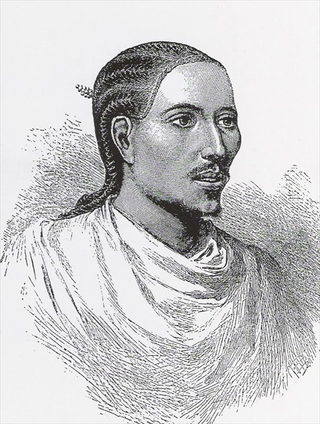 Yohannes IV of Ethiopia